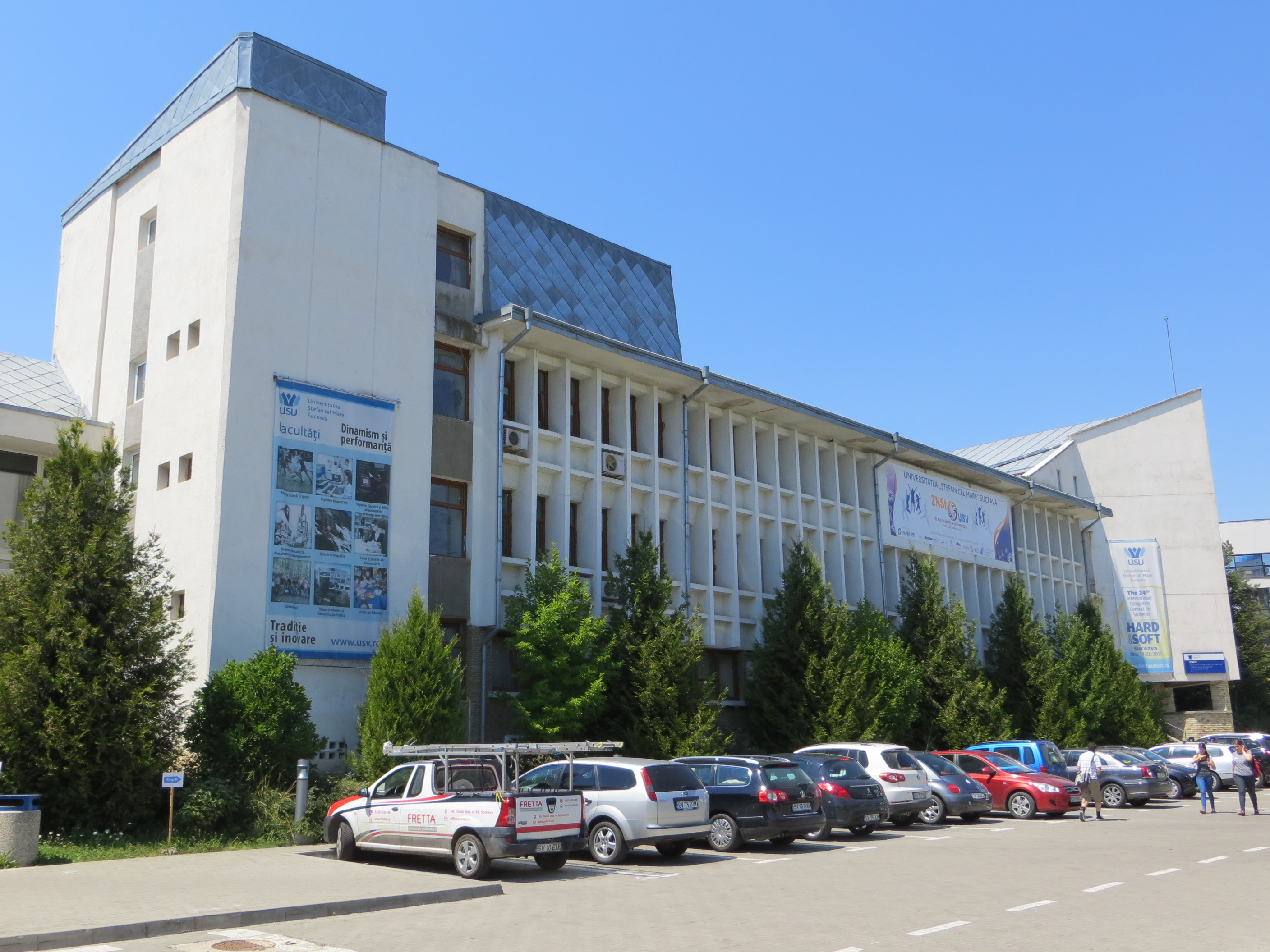 Ştefan cel Mare University in Suceava.